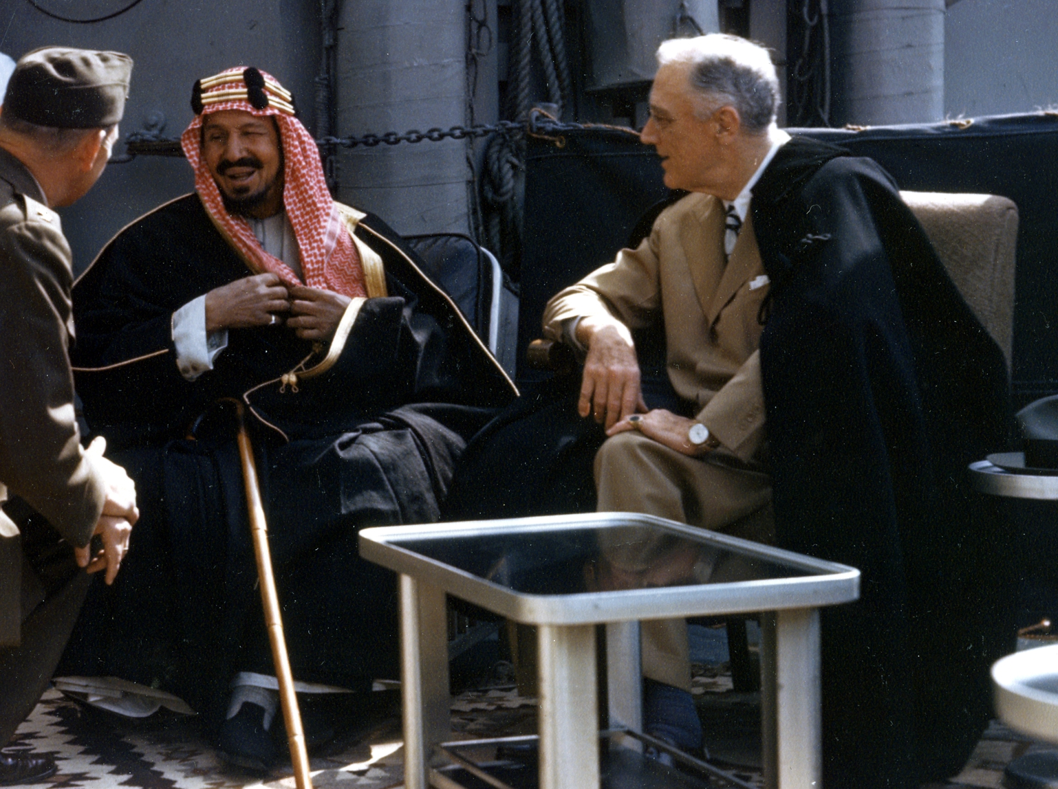 The U.S. President Franklin D. Roosevelt meets with King Ibn Saud of Saudi Arabia, on board the U.S. Navy heavy cruiser USS Quincy (CA-71) in the Great Bitter Lake, Egypt, on 14 February 1945. The King is speaking to the interpreter, Colonel William A. Eddy, USMC.